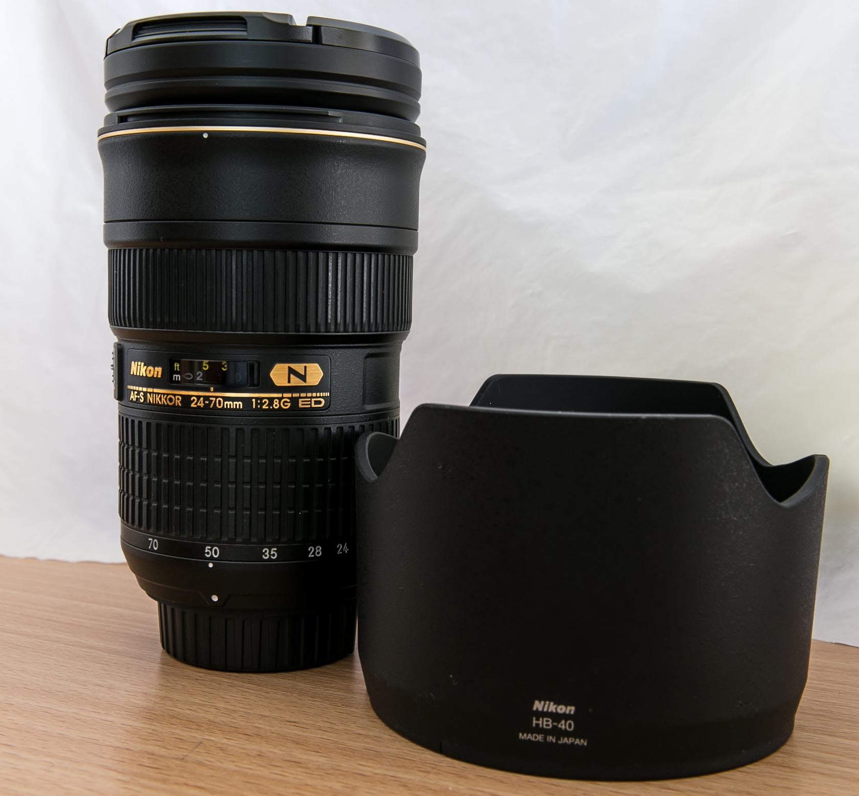 The Nikon AF-S 24-70mm f2.8G ED is a wide to medium telephoto zoom lens with a constant aperture of f/2.8 made by Nikon Japan.